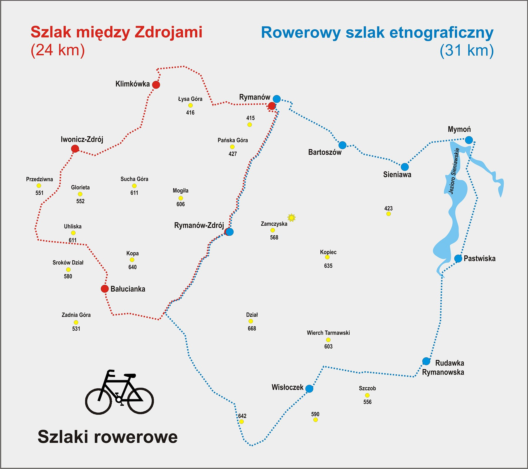 Bicycle routes, Bicycle ethnographical trail, Rymanów-Zdrój, Beskid Niski, Poland